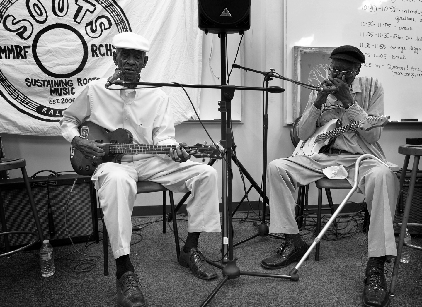 John Dee Holeman (L)&George Higgs (R) play for students at Raleigh Charter High School